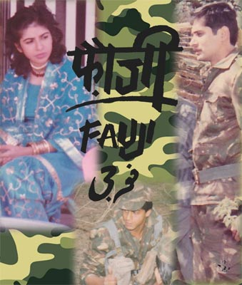 image of the serial 'FAUJI'